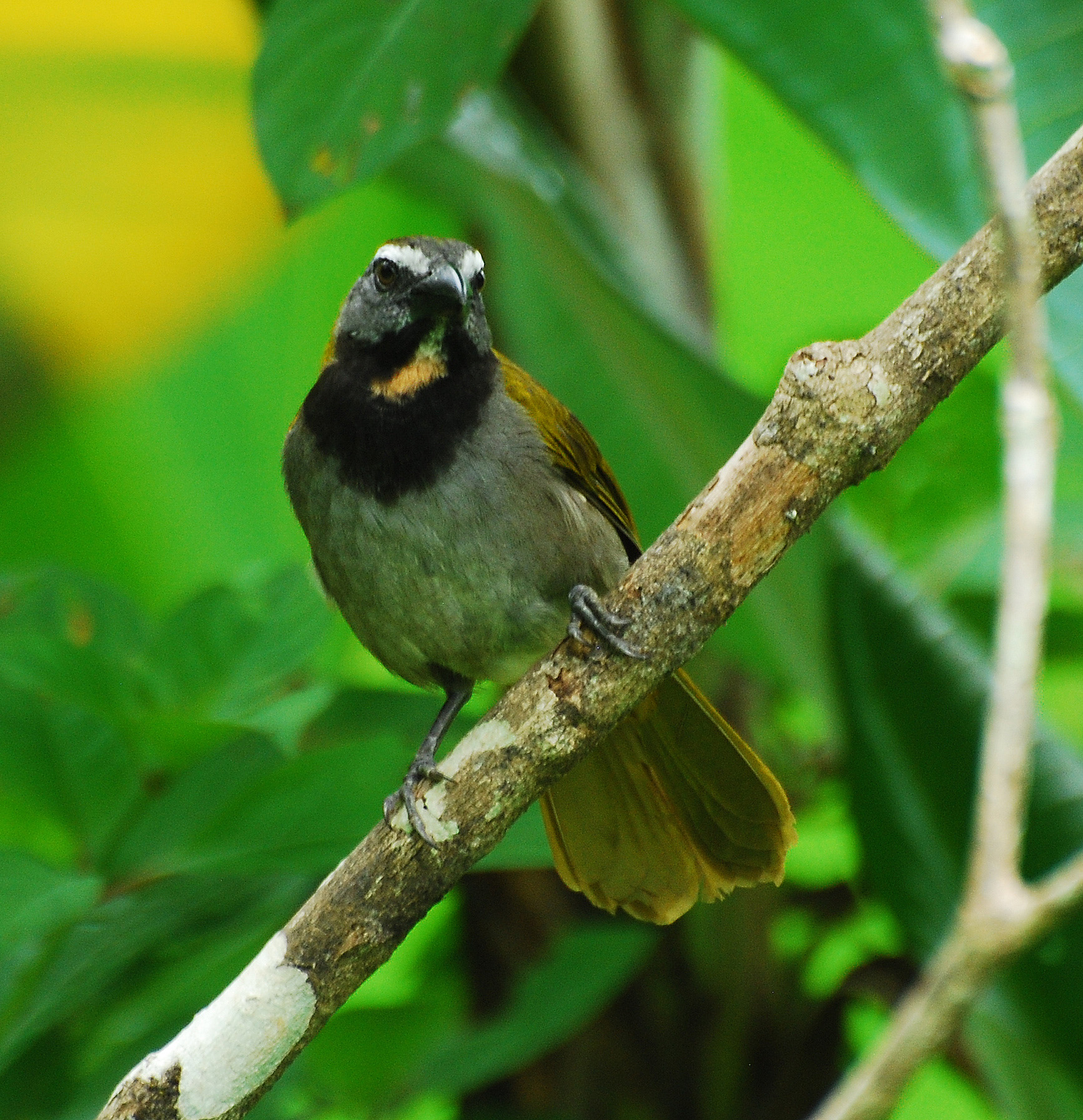 Buff-throated Saltator at Selva Verde Lodge, Costa Rica, 080225. Saltator maximus.